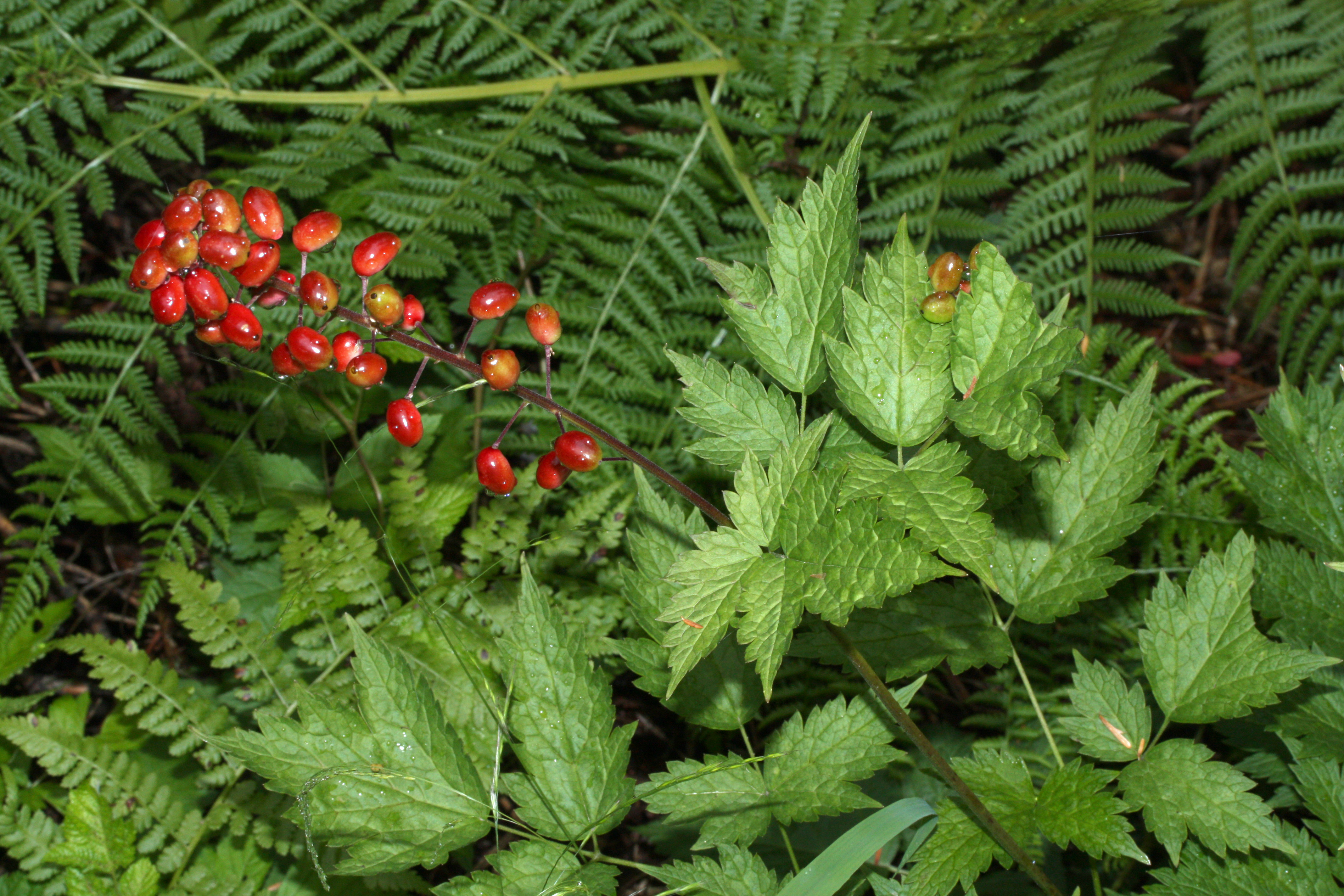 Red Baneberry